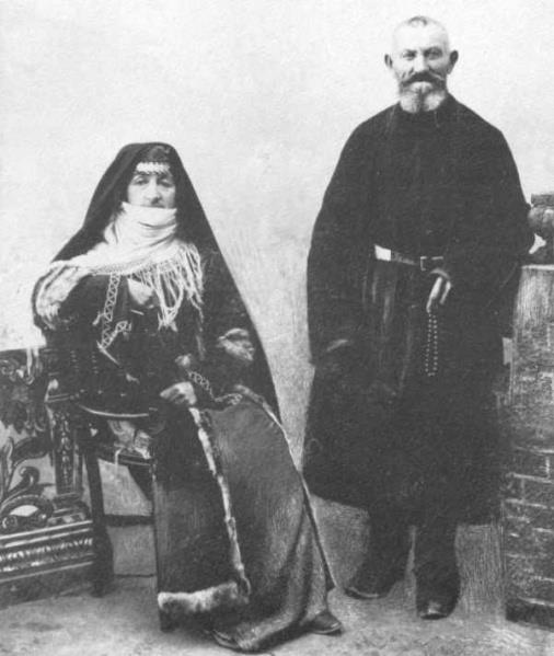 Armenian couple from Shushi in Artsakh at the turn of the 20th century.